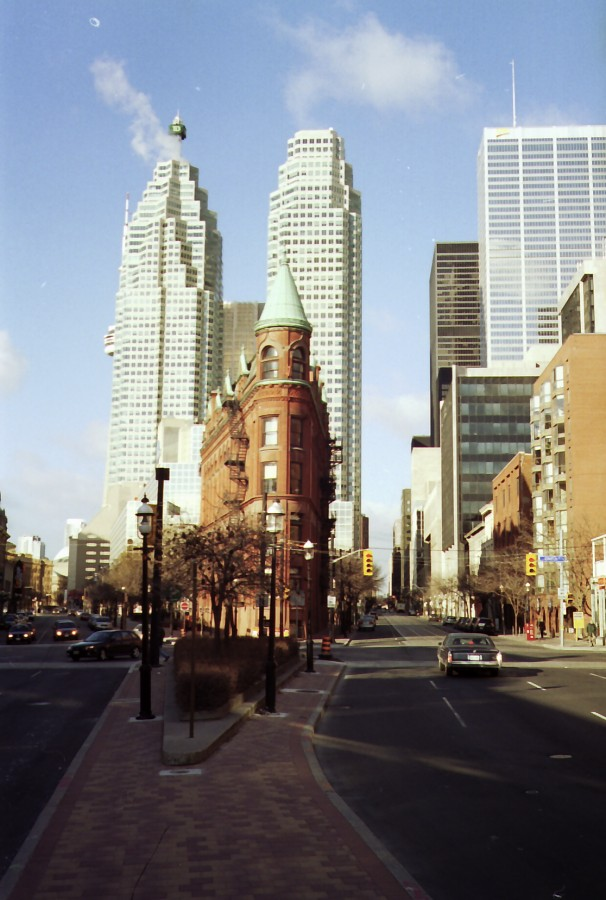 Downtown Toronto, used Kodak Profoto 100 with a Canonet QL17 GIIIMorning Skyline